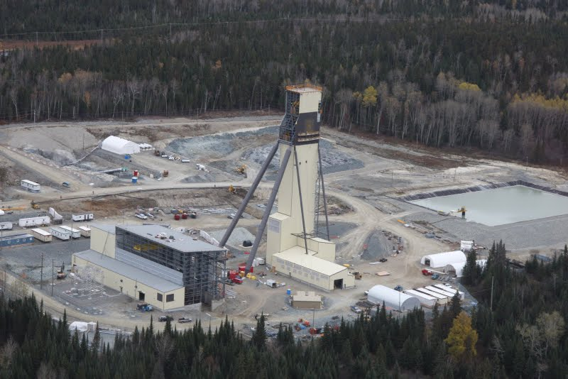 Westwood Mine area in Québec, Canada